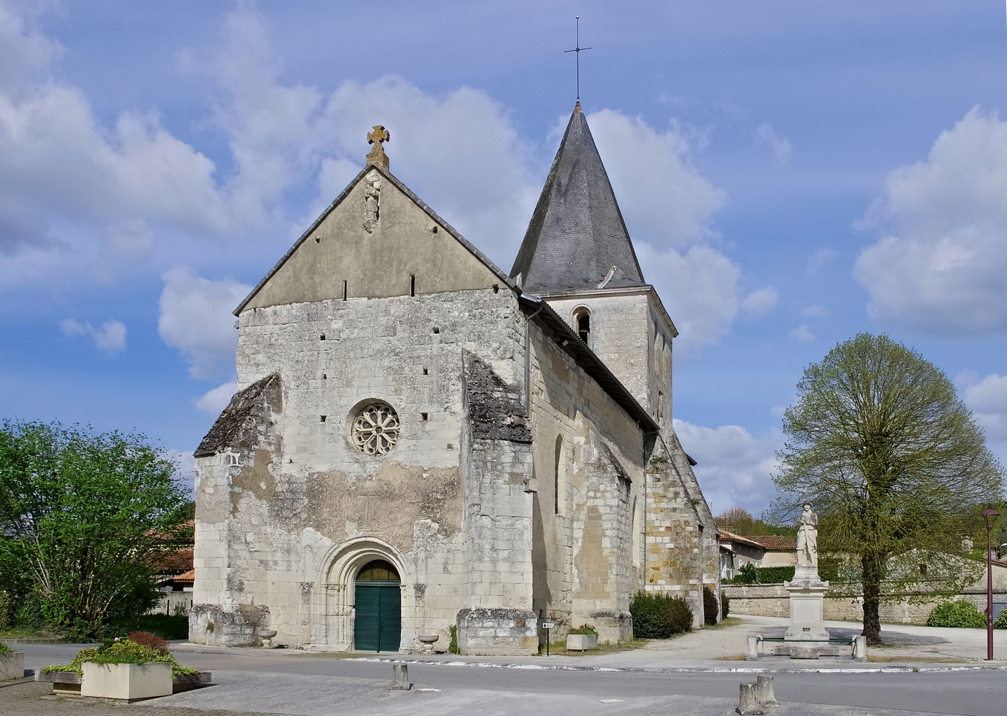 Romanesque church of Yviers (12th-16th centuries), Charente, France.